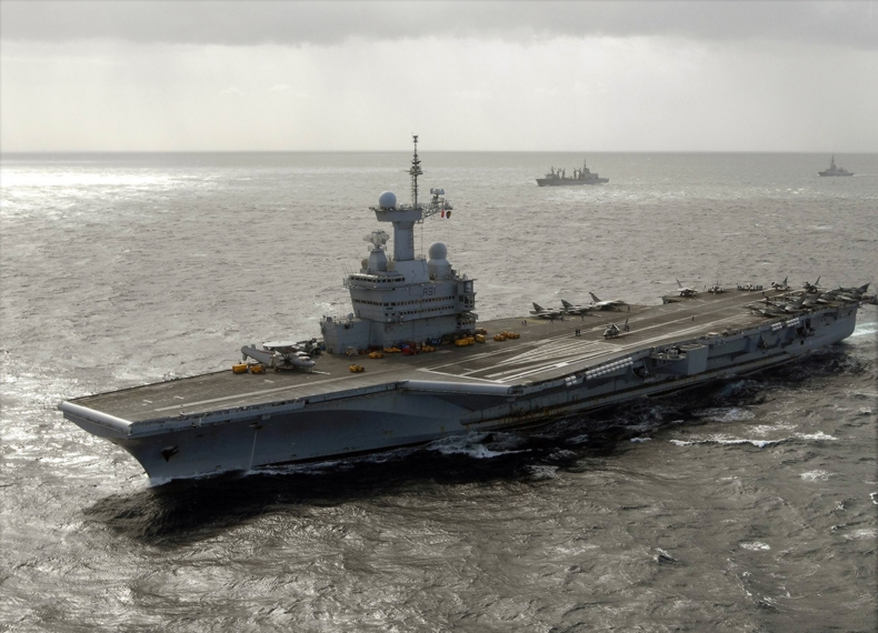 The French aircraft carrier Charles de Gaulle (R91) underway in 2009.